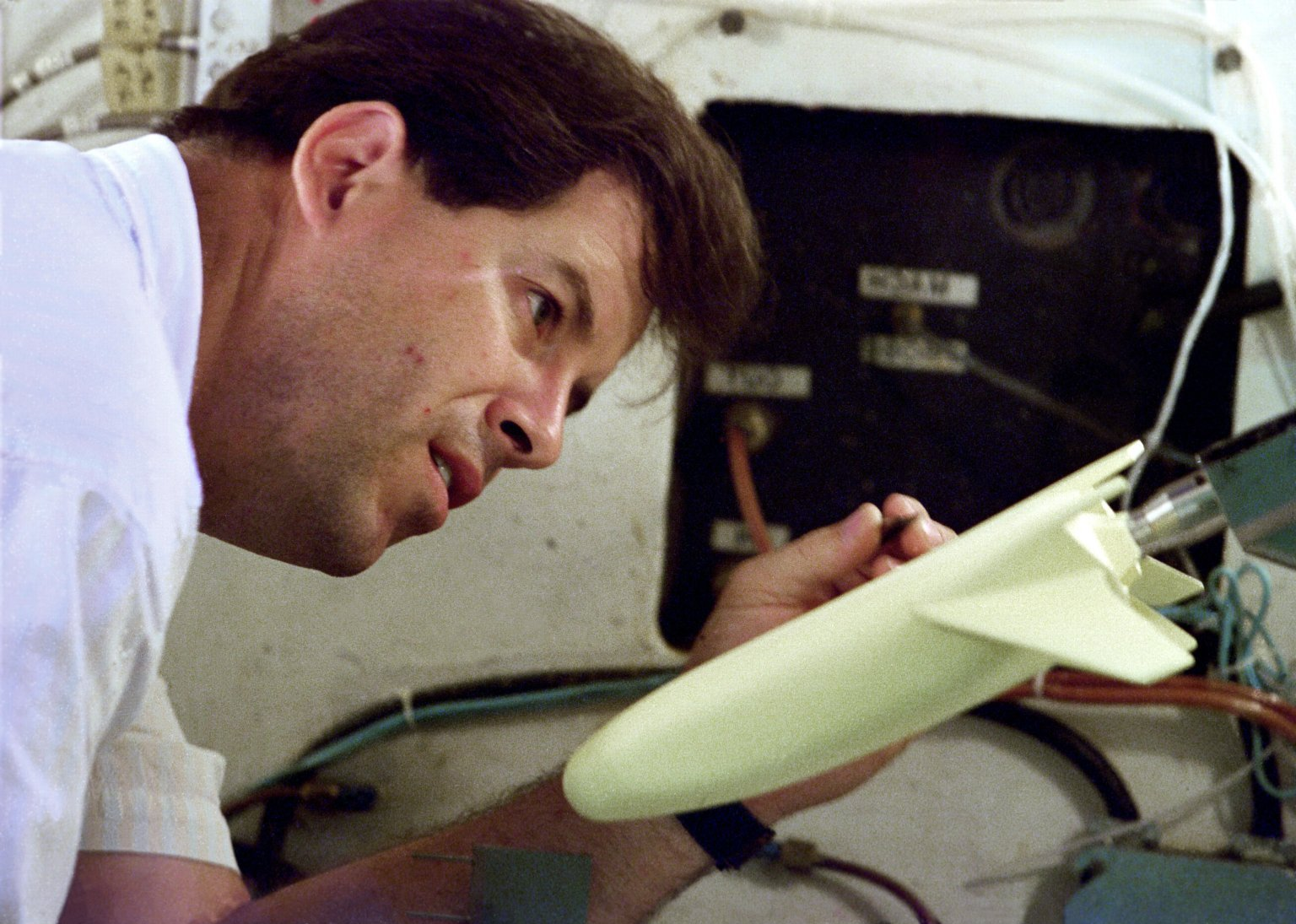 Thomas Horvath of Langley's Aerothermodynamics Branch examines the surface of a model of the X-33 prior to testing in the 20-Inch Mach 6 Air Wind Tunnel at NASA Langley Research Center. The tests, held during the month of September 1997, were conducted to determine aeroheating characteristics of the X-33. The X-33 vehicle will consist of a lifting body airframe with two cryogenic propellant tanks (liquid hydrogen, LH2, and liquid oxygen, LOX) placed within the aeroshell. The vehicle will have two linear aerospike main engines. The X-33 Design and Flight Demonstration Program key objectives are to reduce business and technical risks to privately finance development and operation of a next-generation space transportation system through ground and flight tests of a spaceplane technology demonstrator, ensure that the X-33 design and major components are usable and scaleable to a full-scale, single-stage-orbit reusable launch vehicle (RLV), demonstrate autonomous capability from takeoff to landing, and verify operability and performance in "real world" environments. NASA Identifier: L97-3336